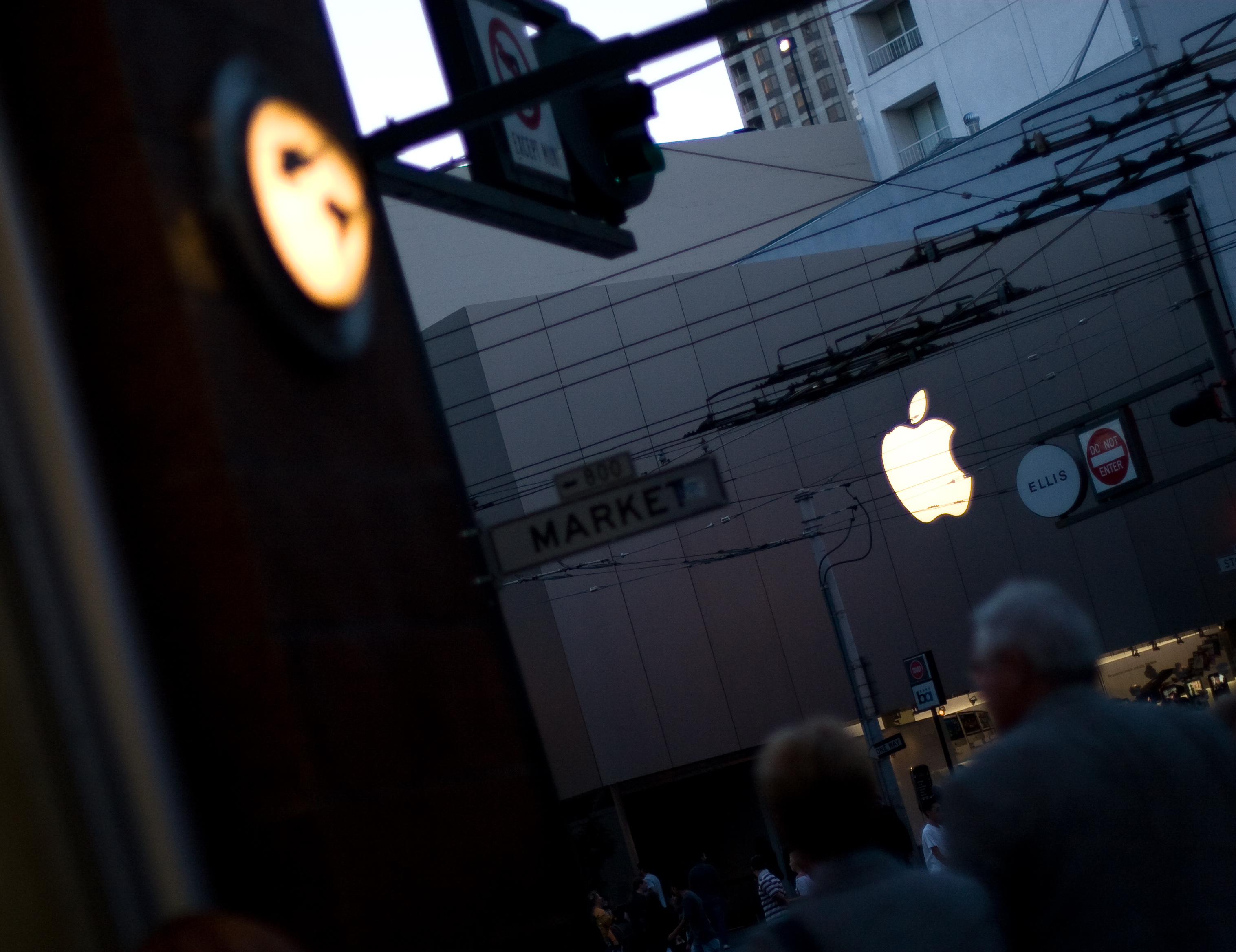 The *very* popular Apple Store in San Francisco.